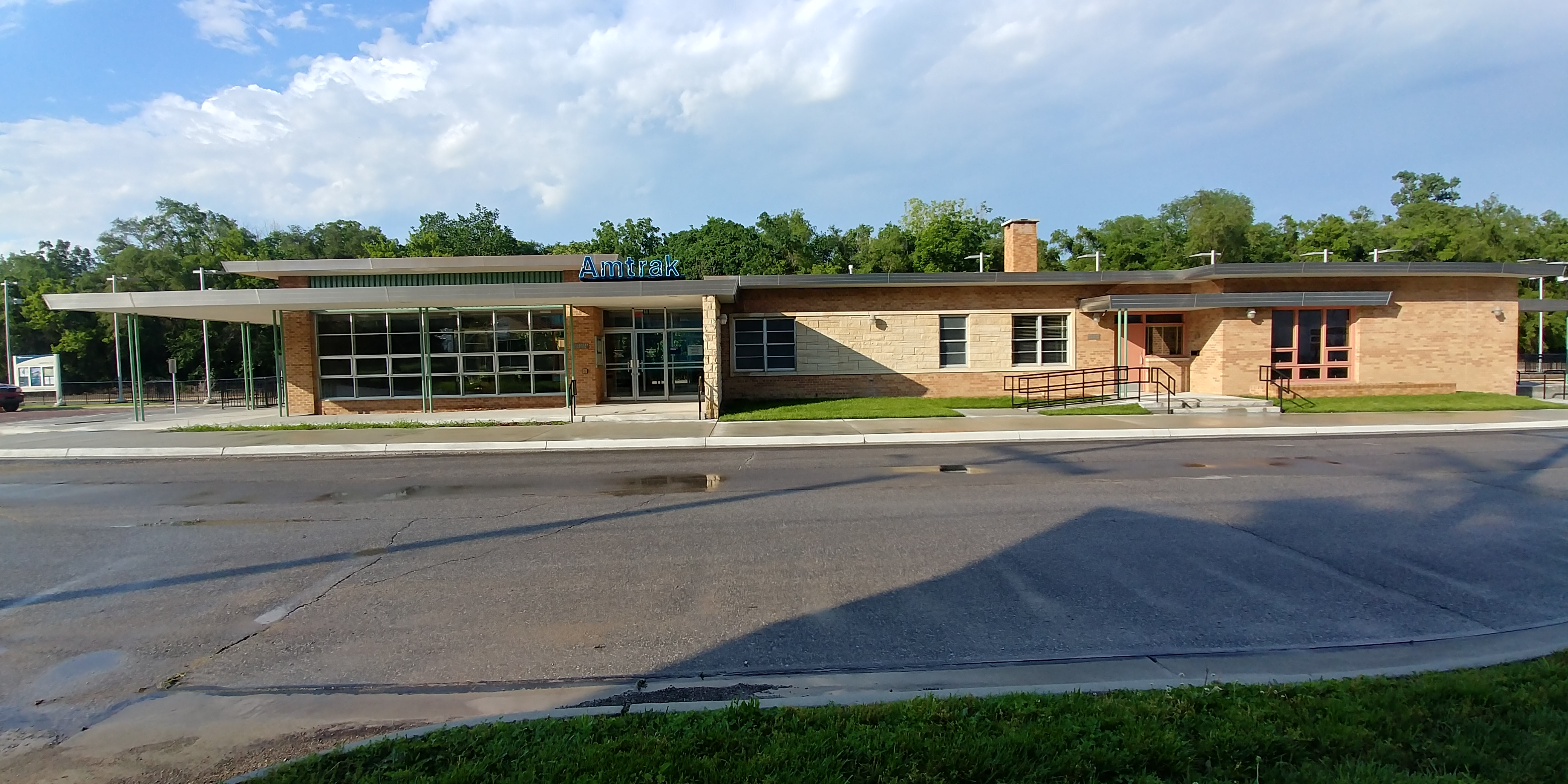 Lawrence Amtrack Station